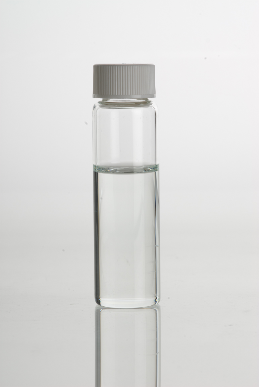 Copaiba (Copaifera officinalis) Essential Oil in glass vial